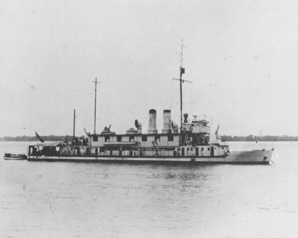 Japanese Gunboat "Seta" at Yantze River.